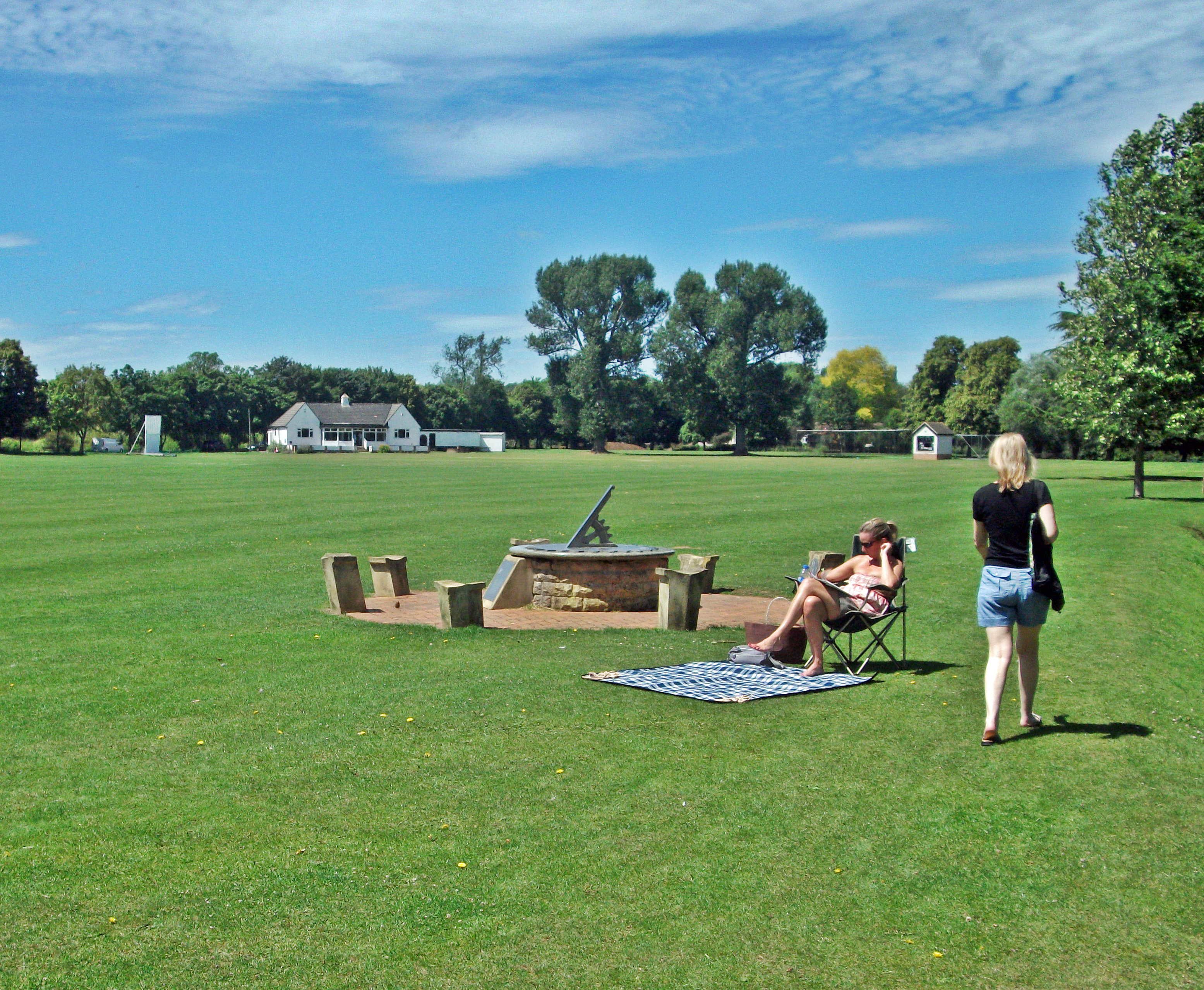 Melton Mowbray, Leicestershire; perfect summer scene with the Rotary Club sundial and the cricket ground.